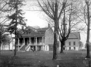 Joseph F. Glidden House and property, DeKalb, Illinois. Taken sometime between 1890 and 1910. A local historian asserts 1900-1910, based on the appearance of a "telephone pole" in the photo, though no consideration was given to whether or not it might have been a telegraph pole, which would allow for the earlier date.